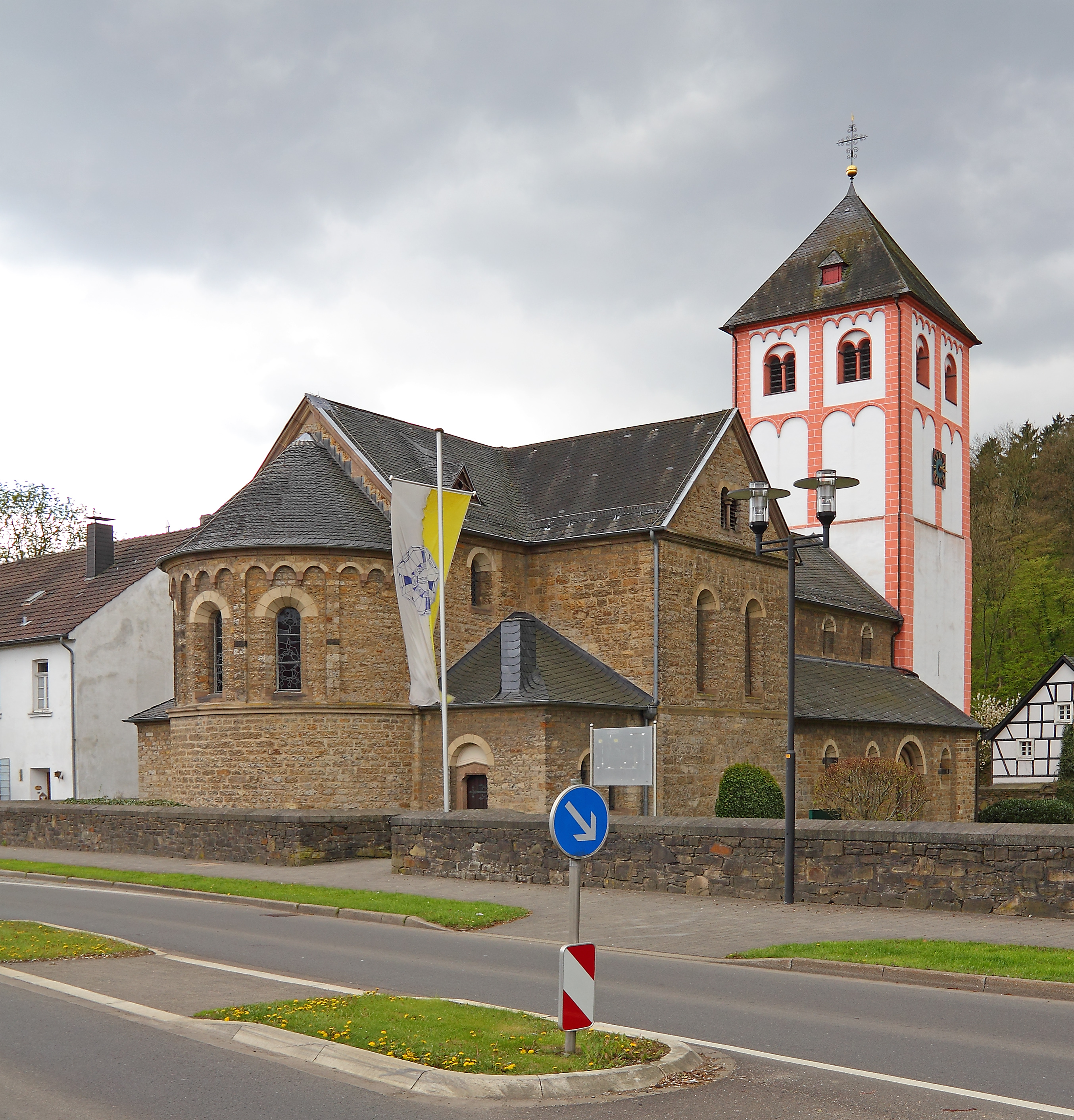 Odenthal (NRW, Germany); catholic church of St. Pancratius